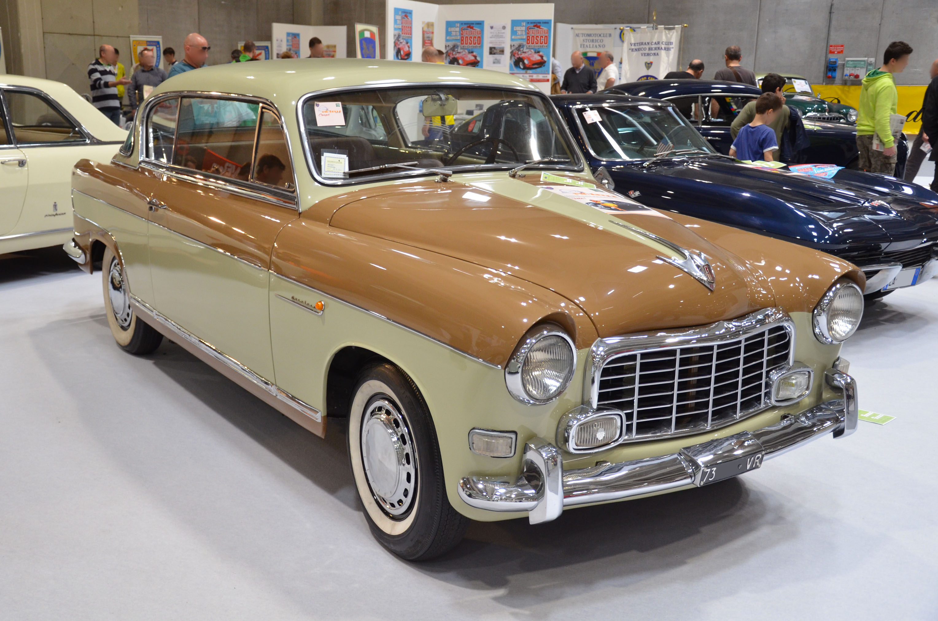 Fiat 1900 B Granluce, photographed at Verona Legend Cars 2015.